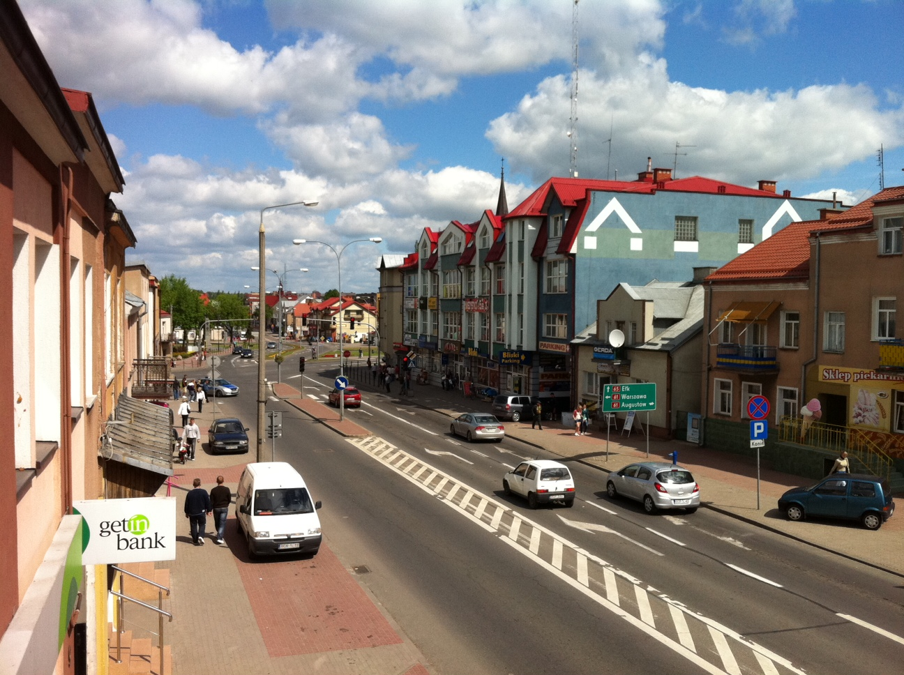 Ul. Wojska Polskiego